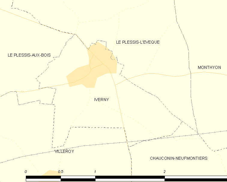 Map of French municipality Iverny